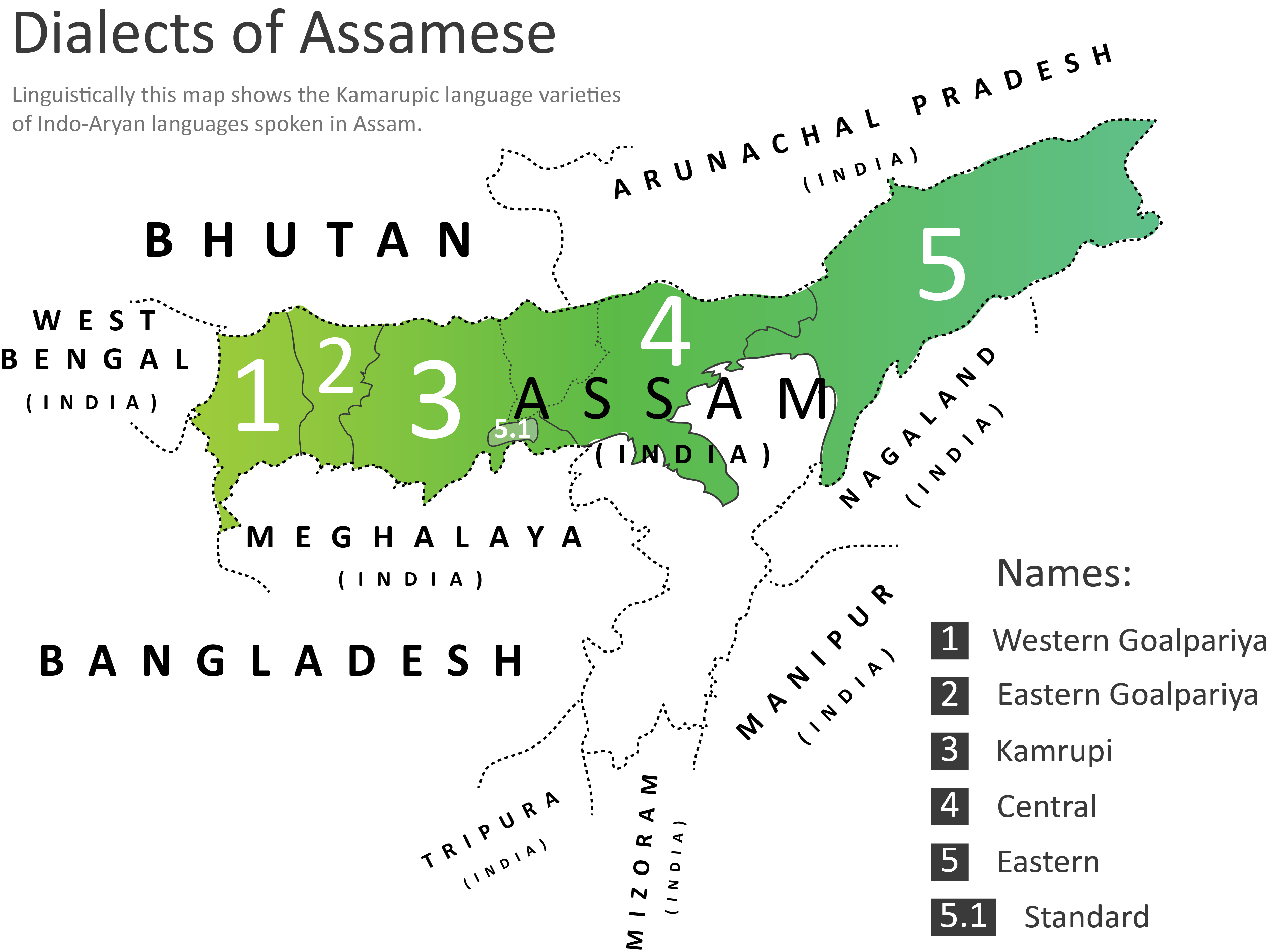 This map shows the dialects of Assamese according to their political classification. Linguistically these are language varieties of the Kamarupi group of Bengali-Assamese group of the Indo-Aryan branch of Indo-European language family. The varieties have high mutually intelligibility and form a dialect continuum. Hence the Easternmost variety (Eastern Assamese) may not be considered as a dialect to the Westernmost variety (Western Goalpariya) in linguistic regards.